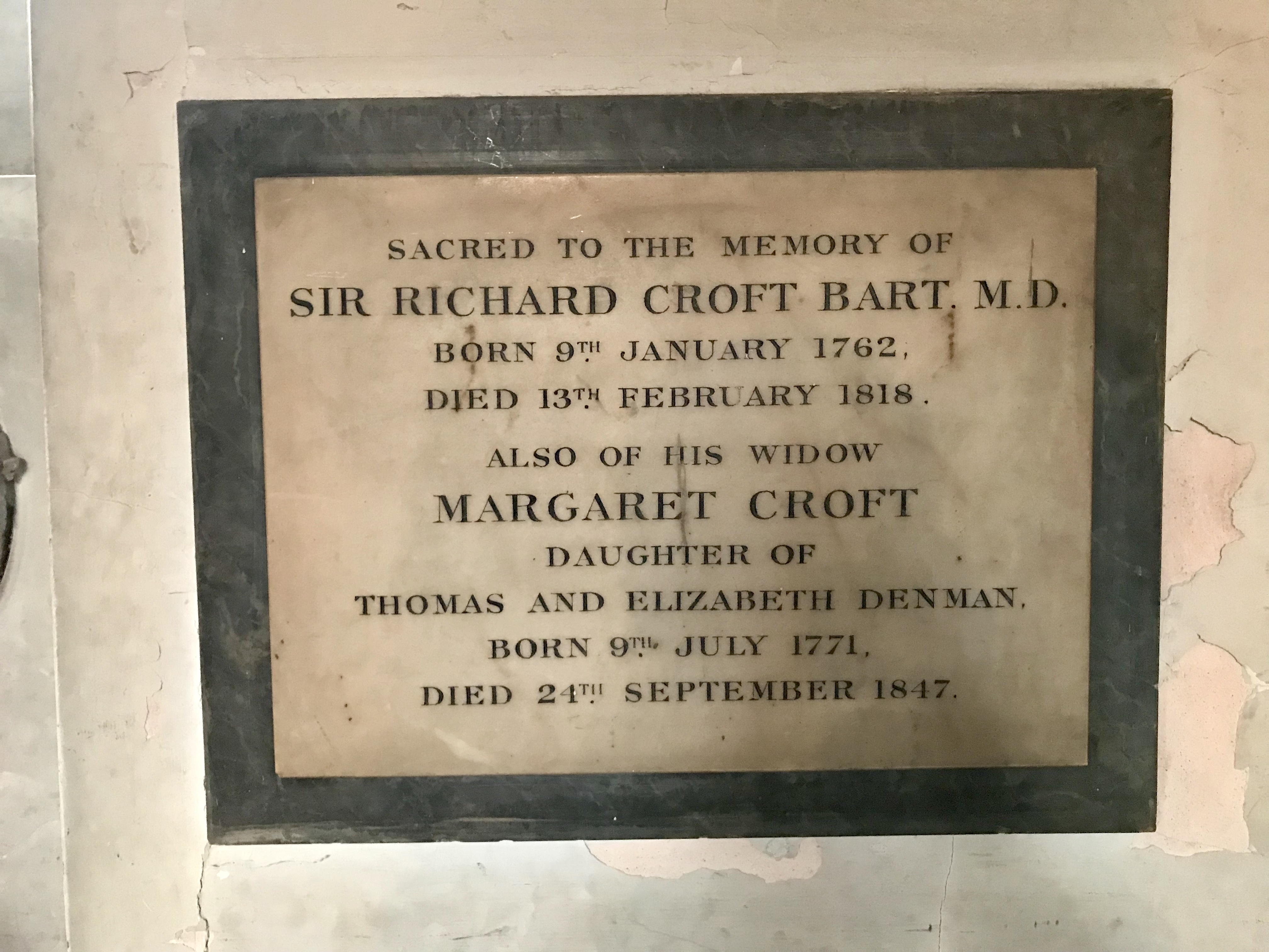 A memorial to Sir Richard Croft, 6th Baronet, in St James's Church, Piccadilly.